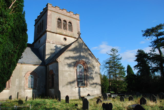 Transept and crossing tower of St Boduan's parish church, Buan, Gwynedd